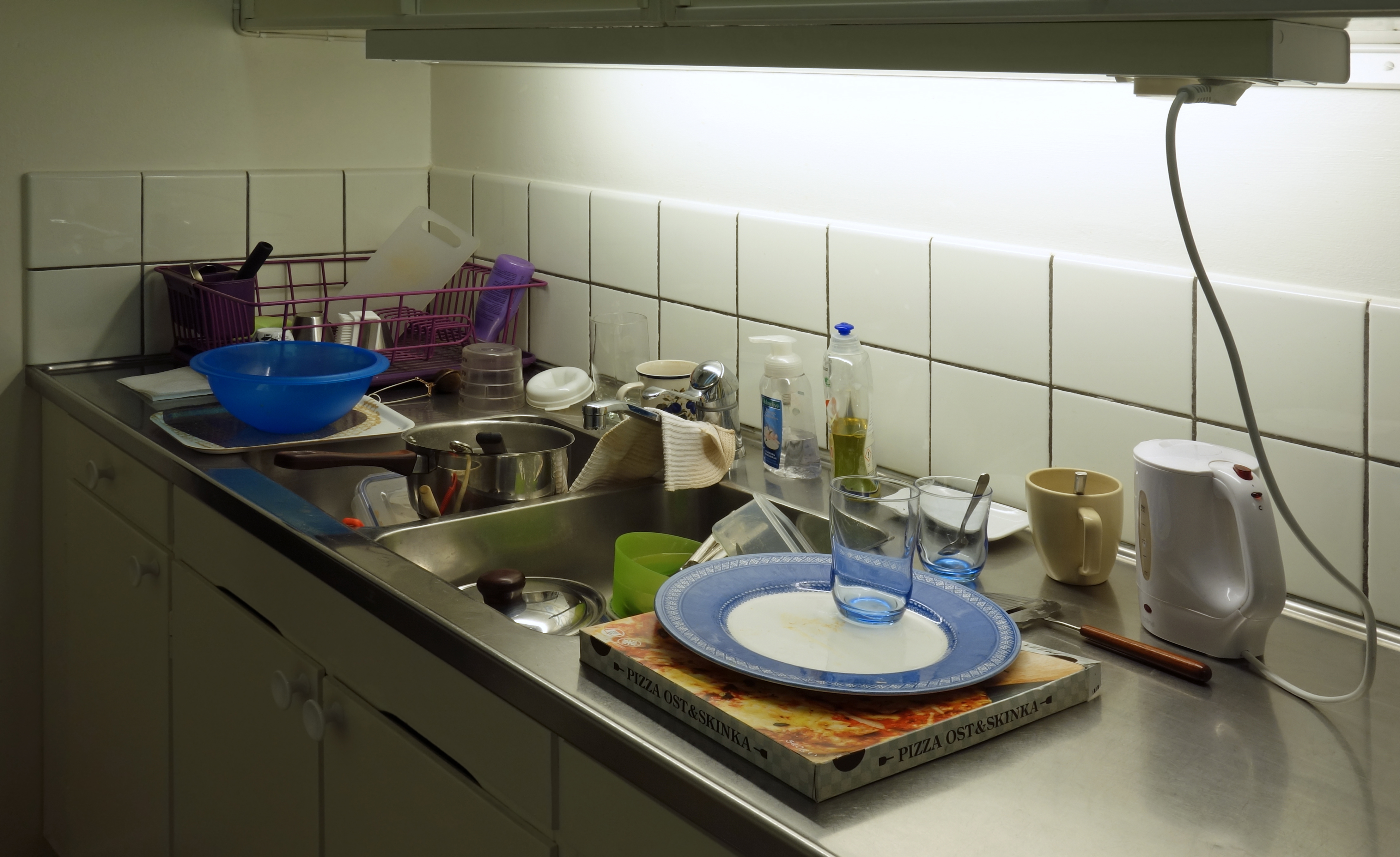 A messy kitchen sink with assorted unwashed items in Lysekil Municipality, Sweden.